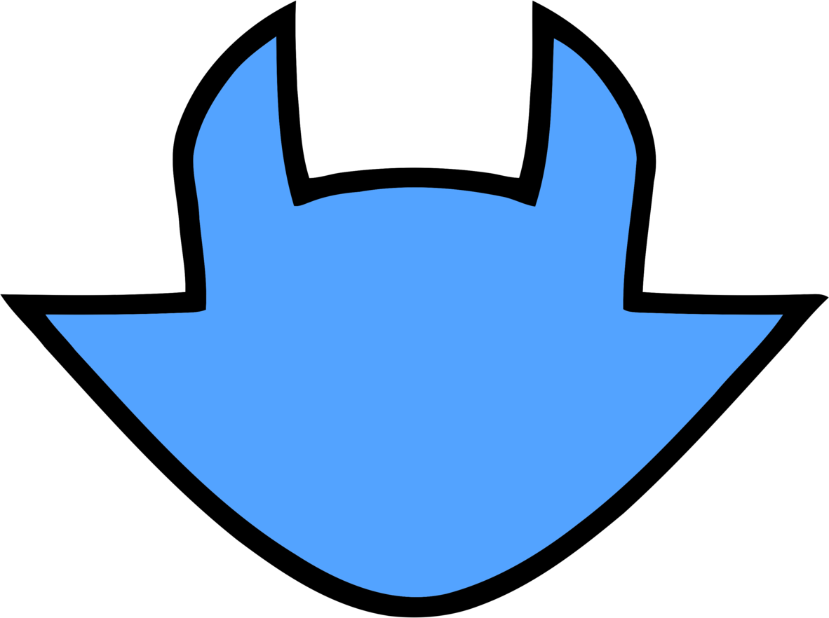 The logo associated with Jade, as well as her "first guardian" dog Becquerel, in the webcomic homestuck.